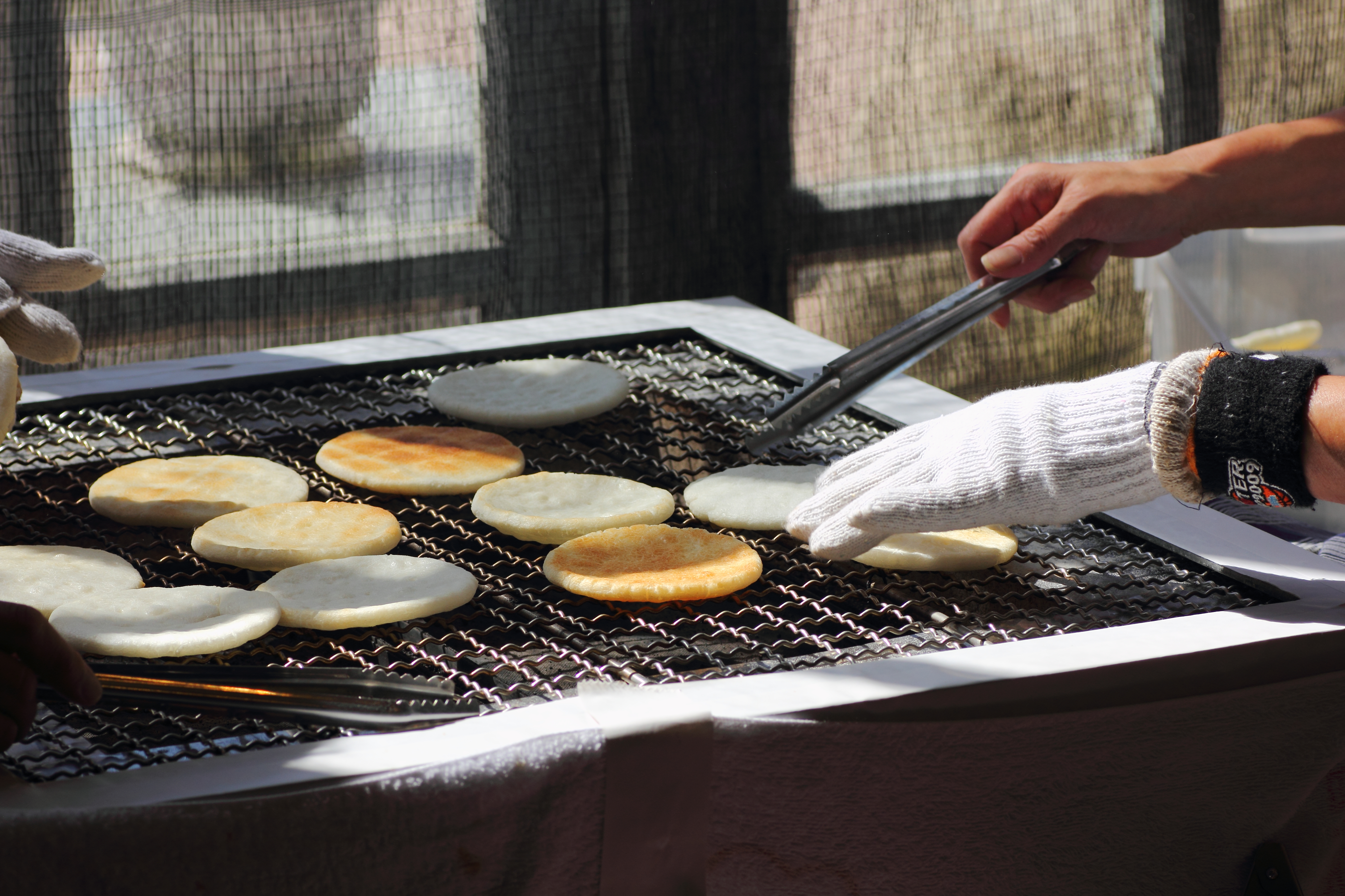 Making of Nure-senbei (Inuboh Station, Chiba, Japan)